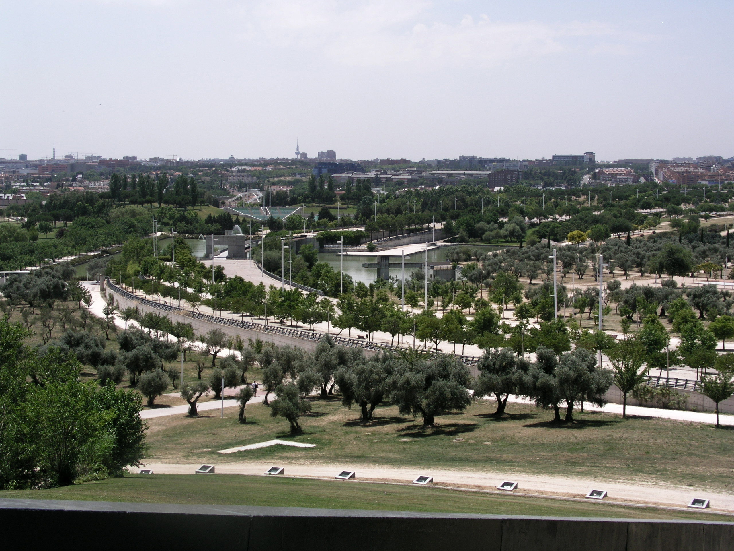 Parque de Juan Carlos I, Madrid, Spain. View from "My sky-hole".